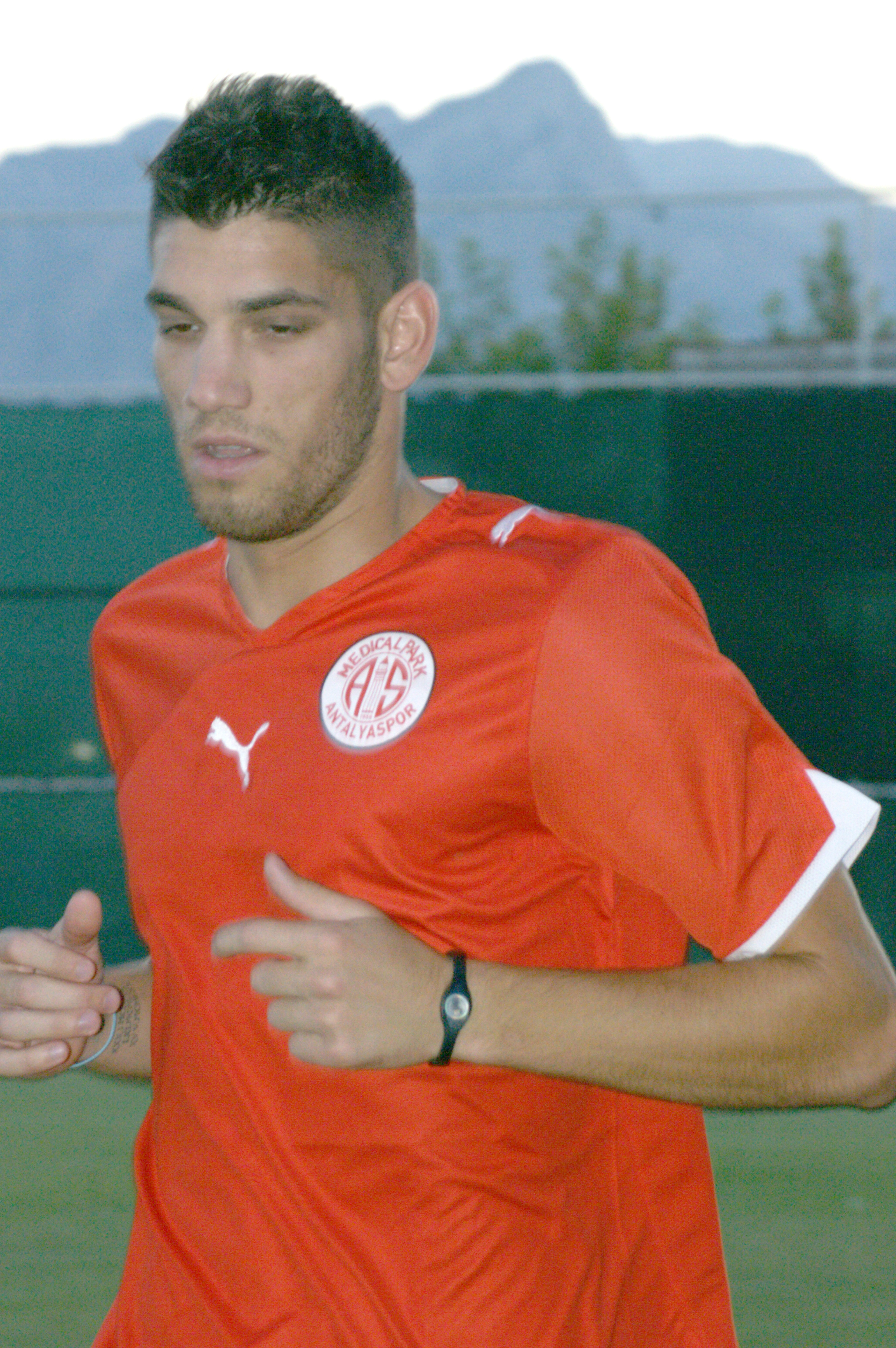 Photo:Murat Özgen